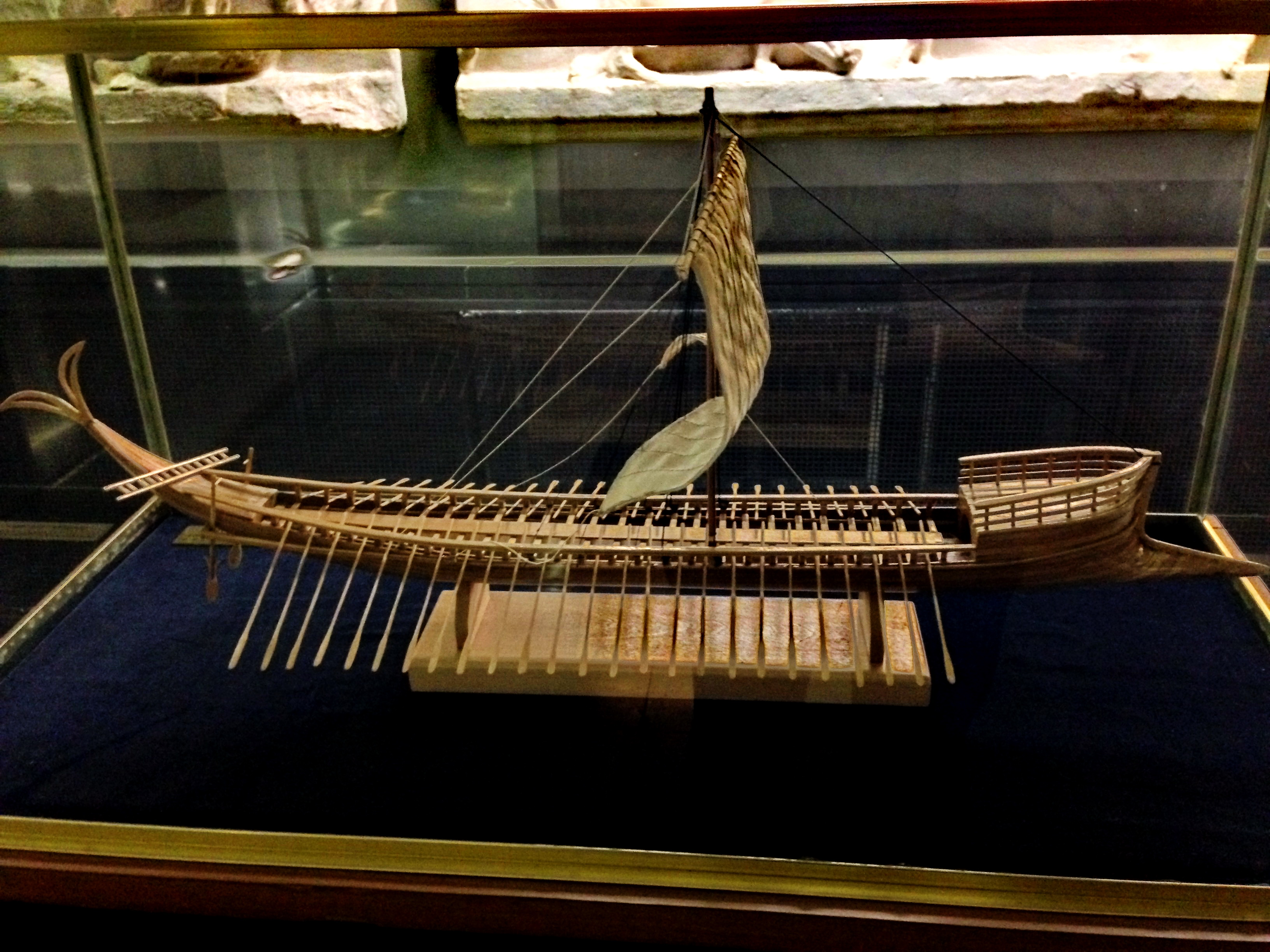 Replica of Penteconter. Athens War Museum.